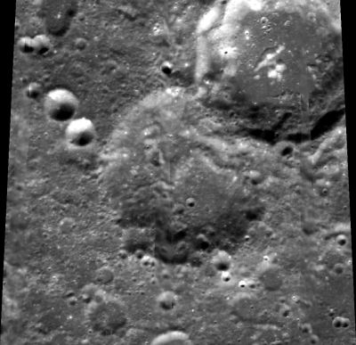 Kramers. The 60-km crater to its upper right, with the central peak, is Kramers C. The remaining craters are unnamed.